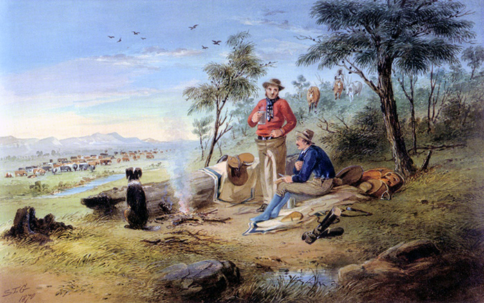 Morning by S.T. Gill (1818-1880)